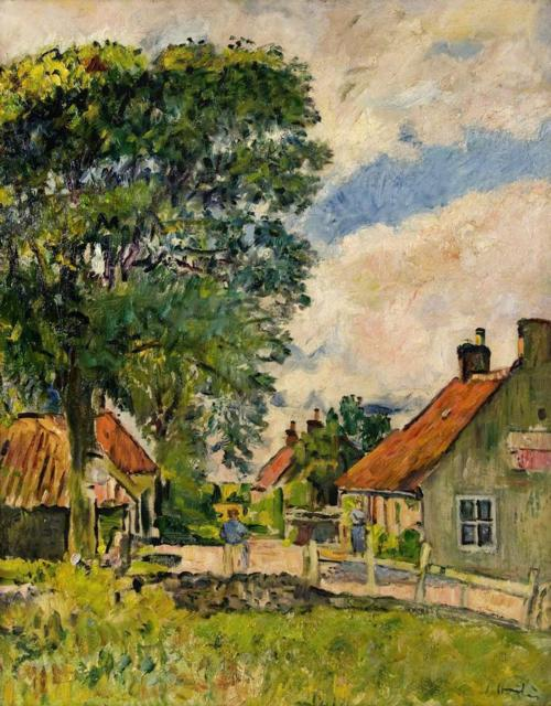 Village in Fife